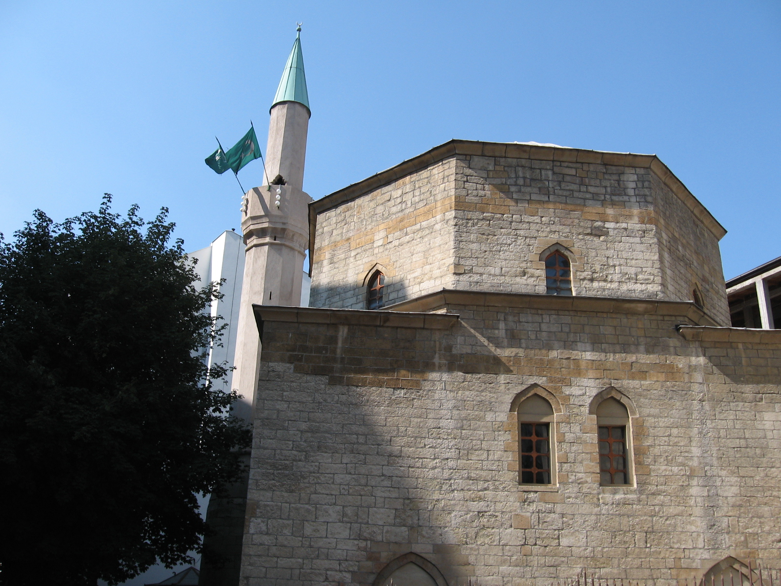 Bajrakli Mosque, Belgrade